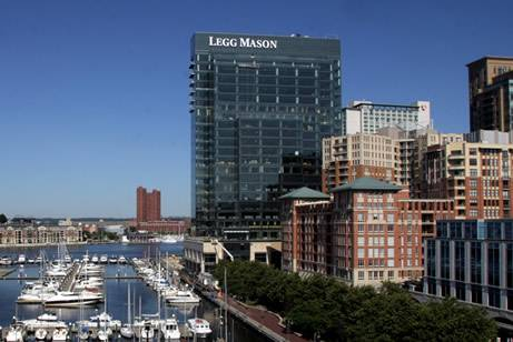 Legg Mason Tower, Legg Mason Headquaters